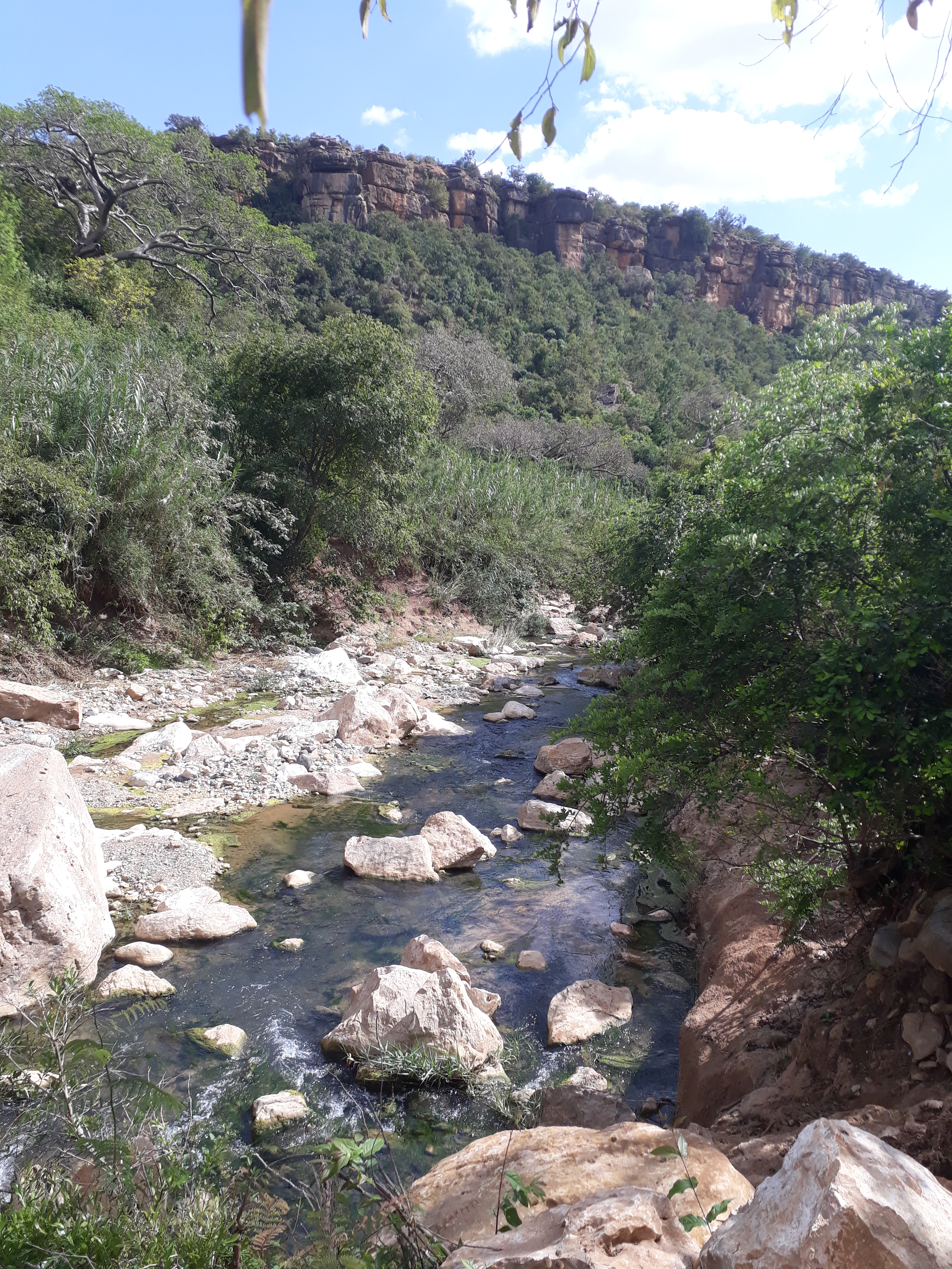 upper Inda Sillasie R